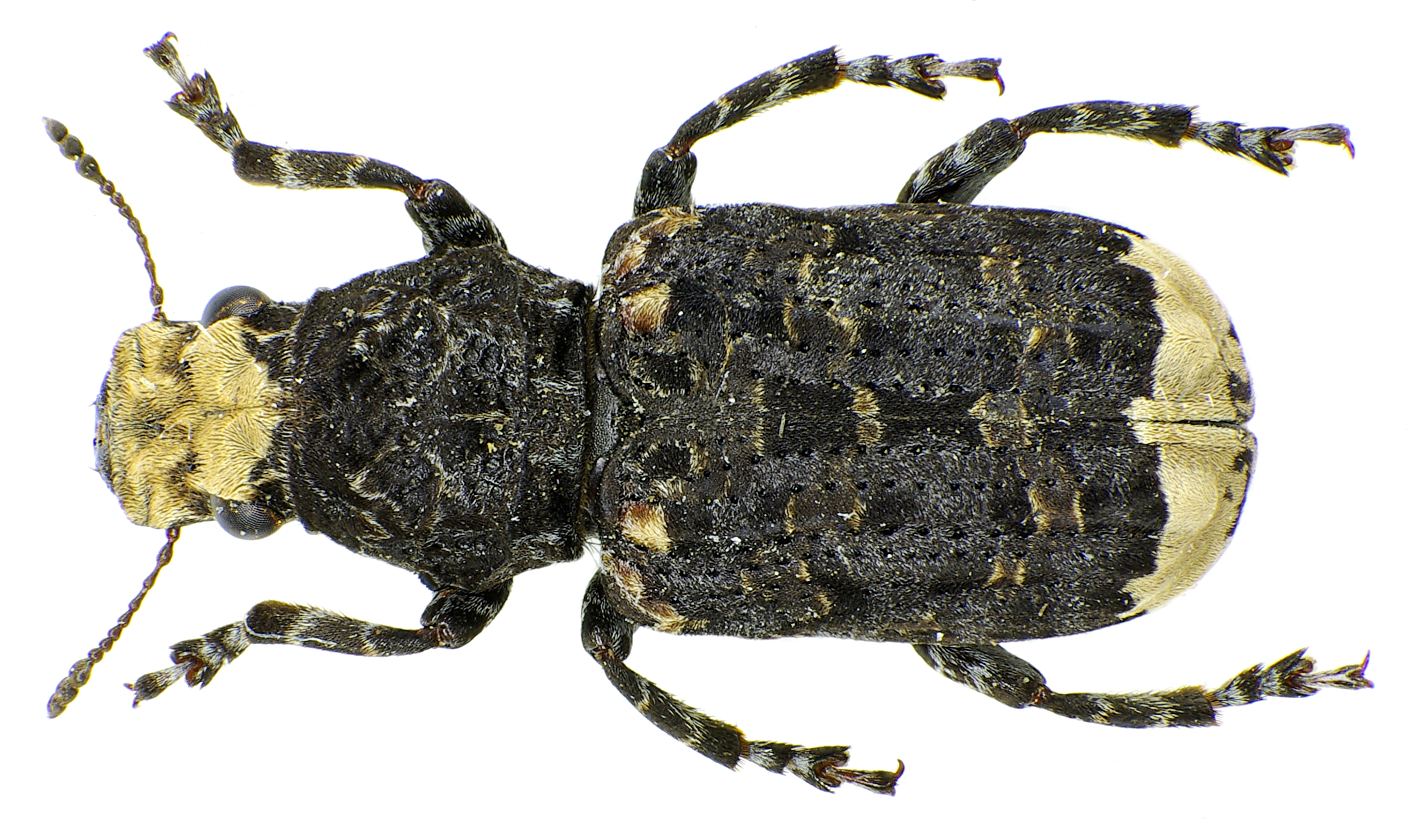 Platyrhinus resinosus